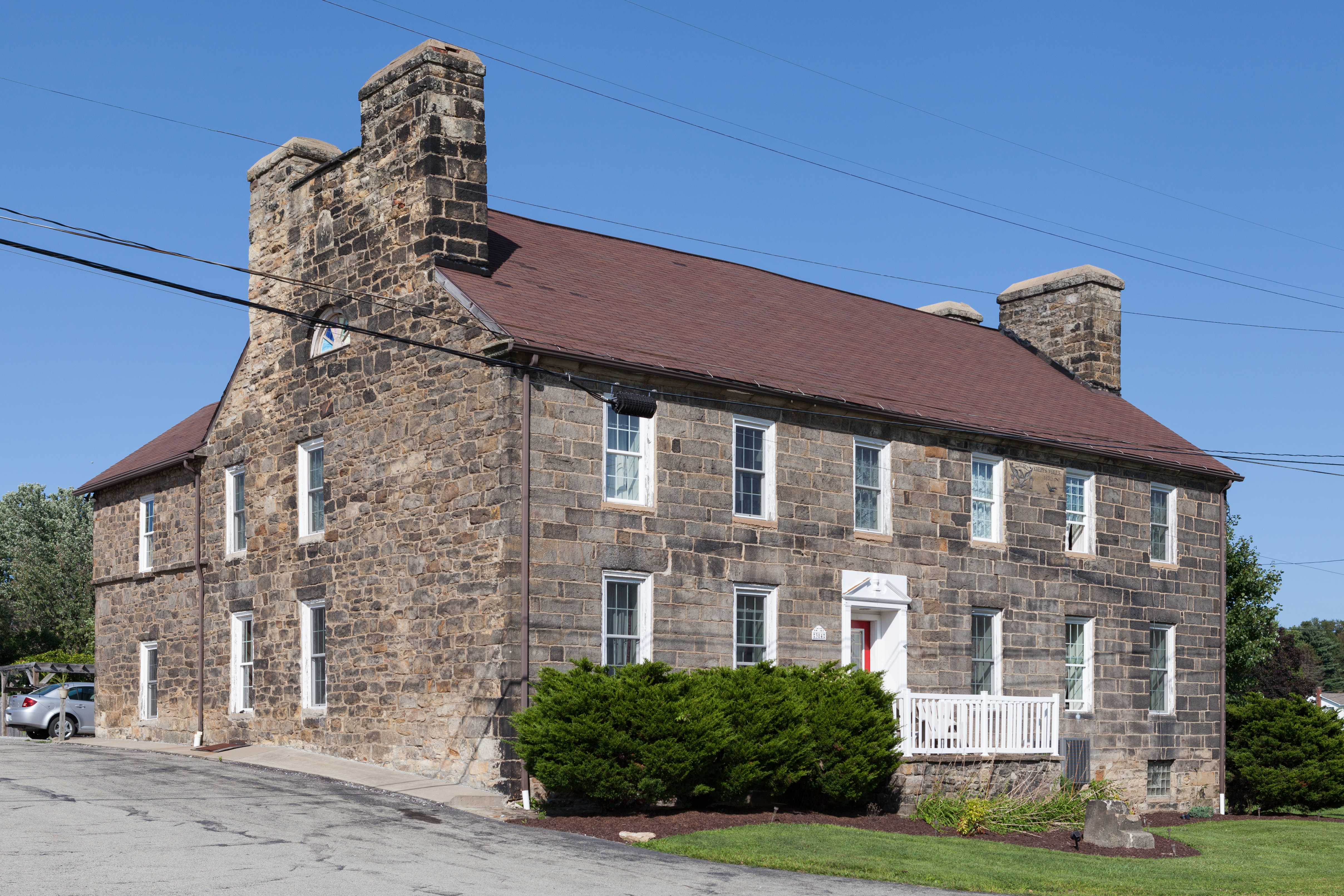 Malden Inn